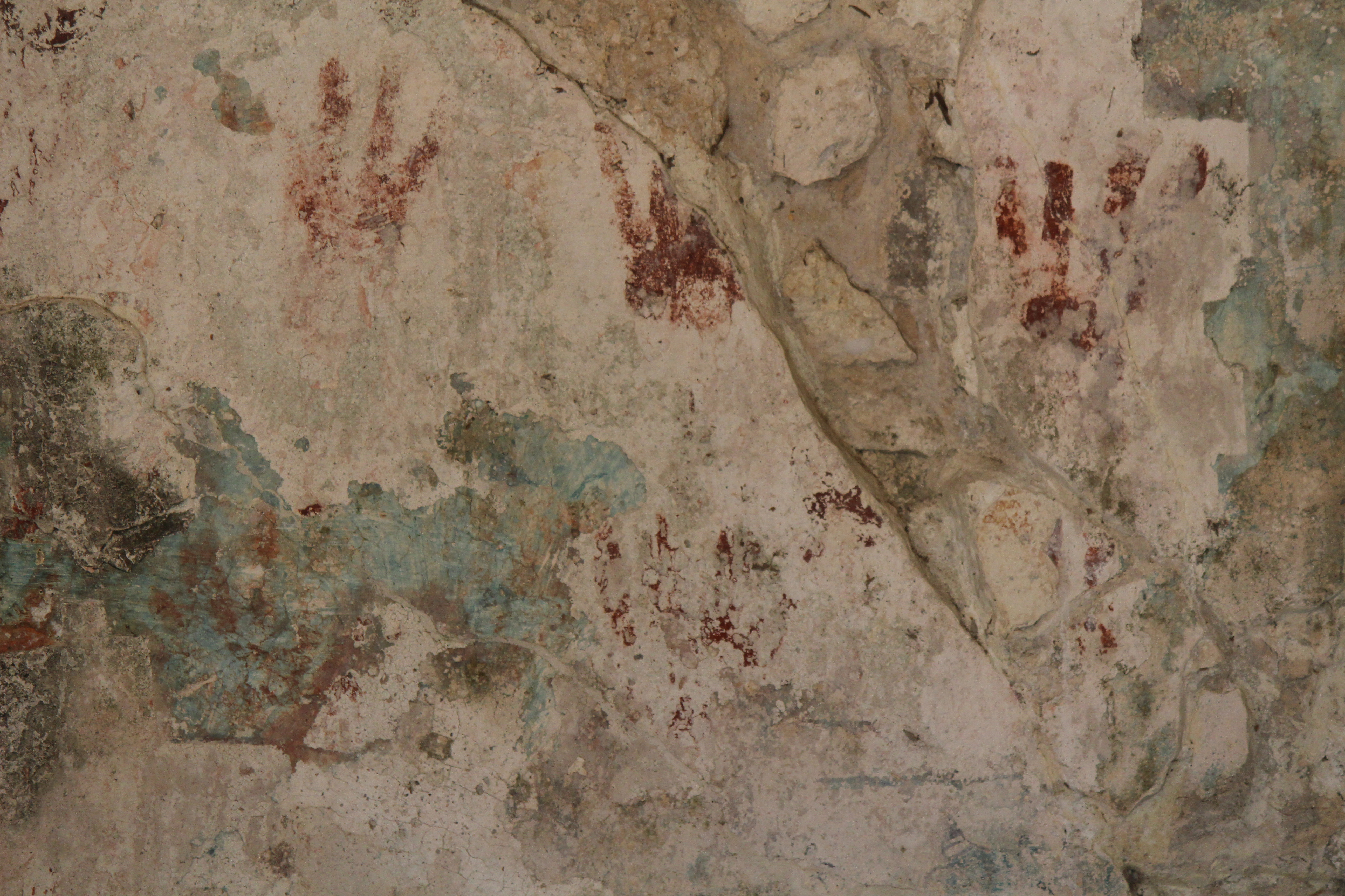 hand prints on the wall of Las Manitas, San Gervasio, Cozumel, Mexico